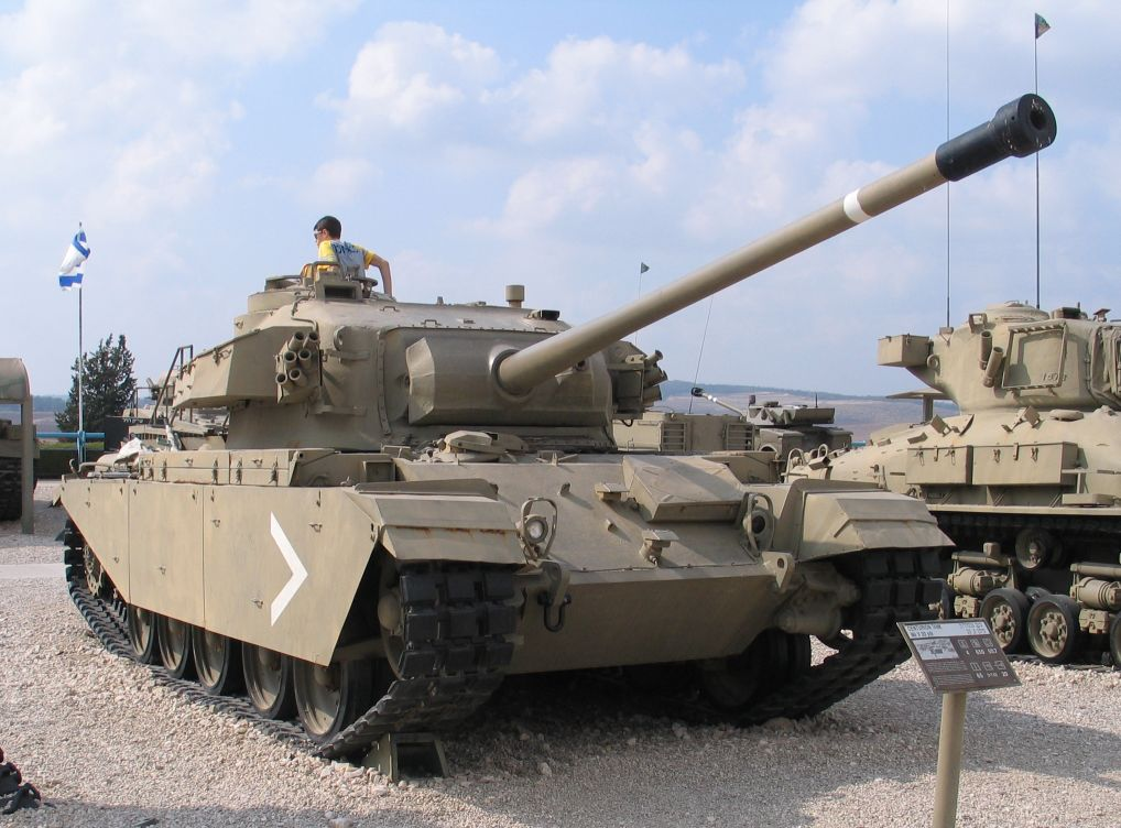 Description: Centurion Mk V MBT in Yad la-Shiryon Museum, Israel. Source: Photo by me, User:Bukvoed.